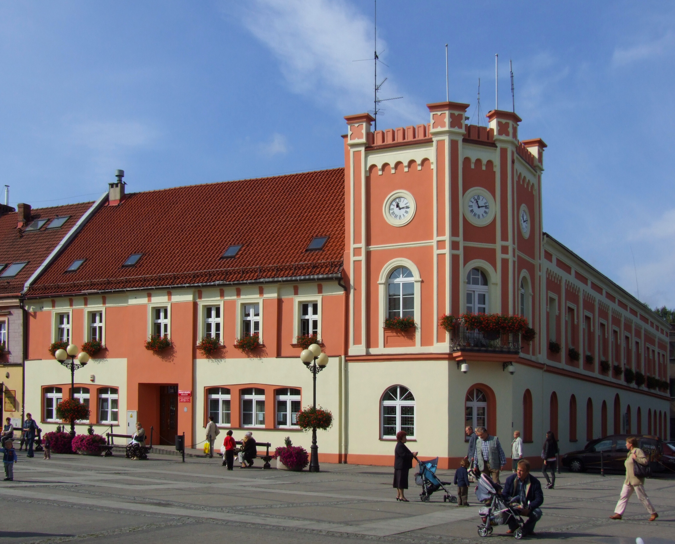 Mikołów (Nikolei) - town hall